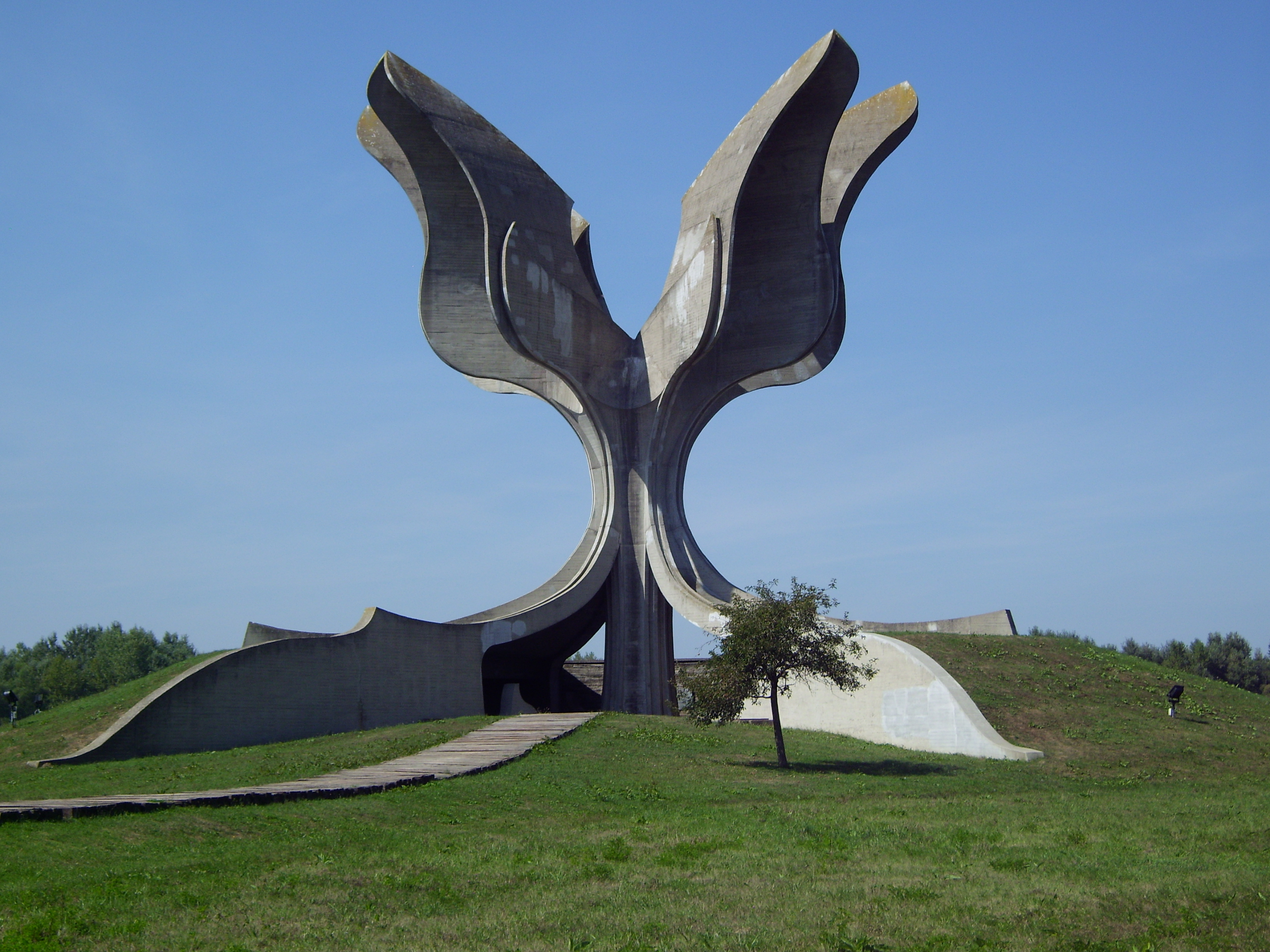 Jasenovac Monument devoted to the victims to Jasenovac concentration camp, Croatia.